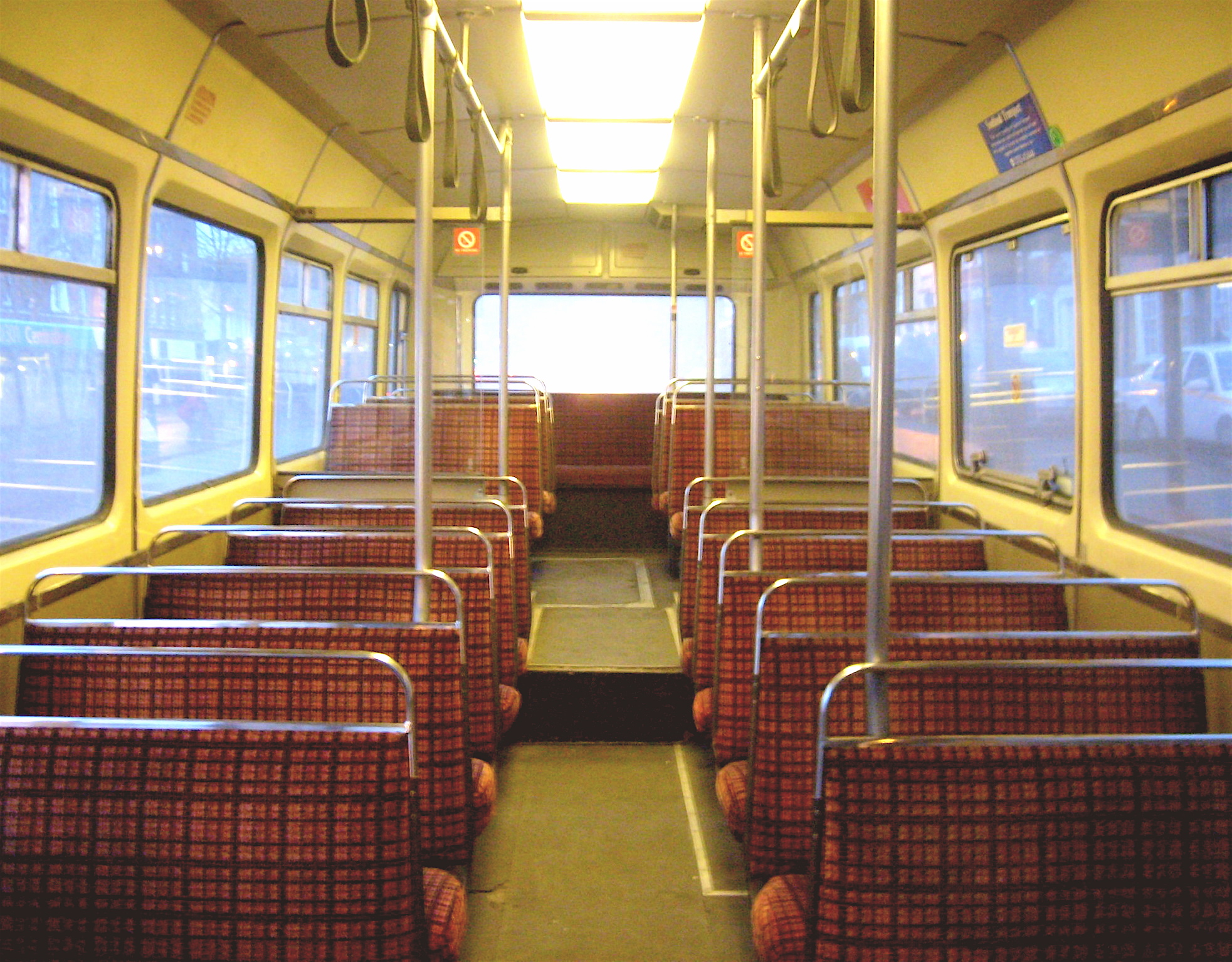 The interior of preserved Southend Transport Leyland National 753 (LPB 218P)